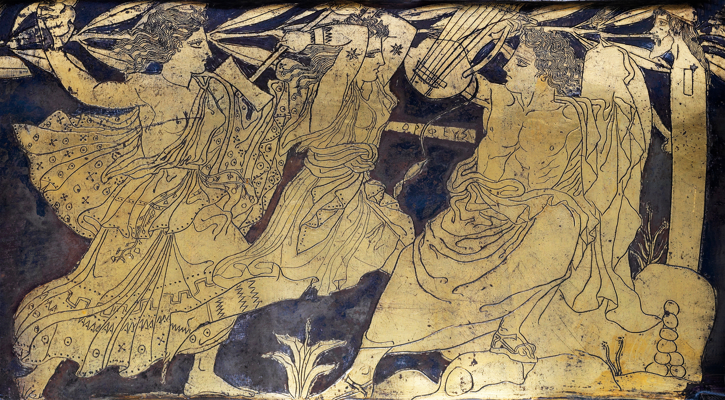 The Death of Orpheus, detail from a silver kantharos, 420-410 BC, part of the Vassil Bojkov collection, Sofia, Bulgaria